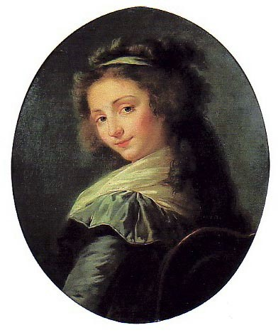 Portrait of Elisabeth Mara (1749–1833), German opera singer